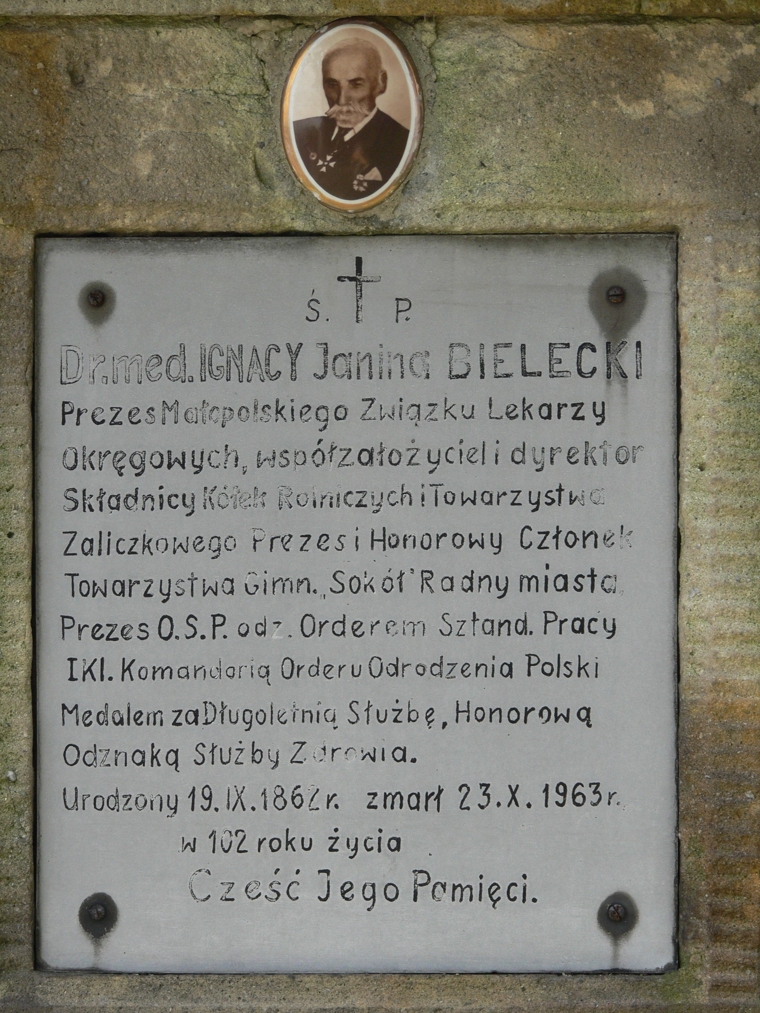 Board from the grave of Ignacy Bielecki on cemetery in Rymanów, community Rymanów, Poland